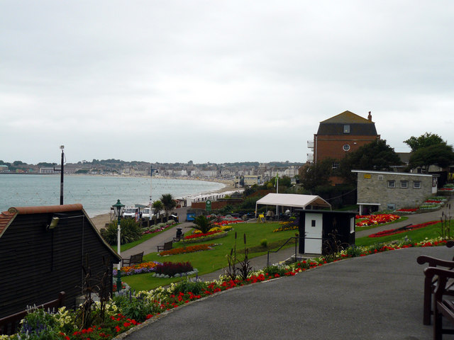 Weymouth - Greenhill Gardens Weymouth's award winning gardens.